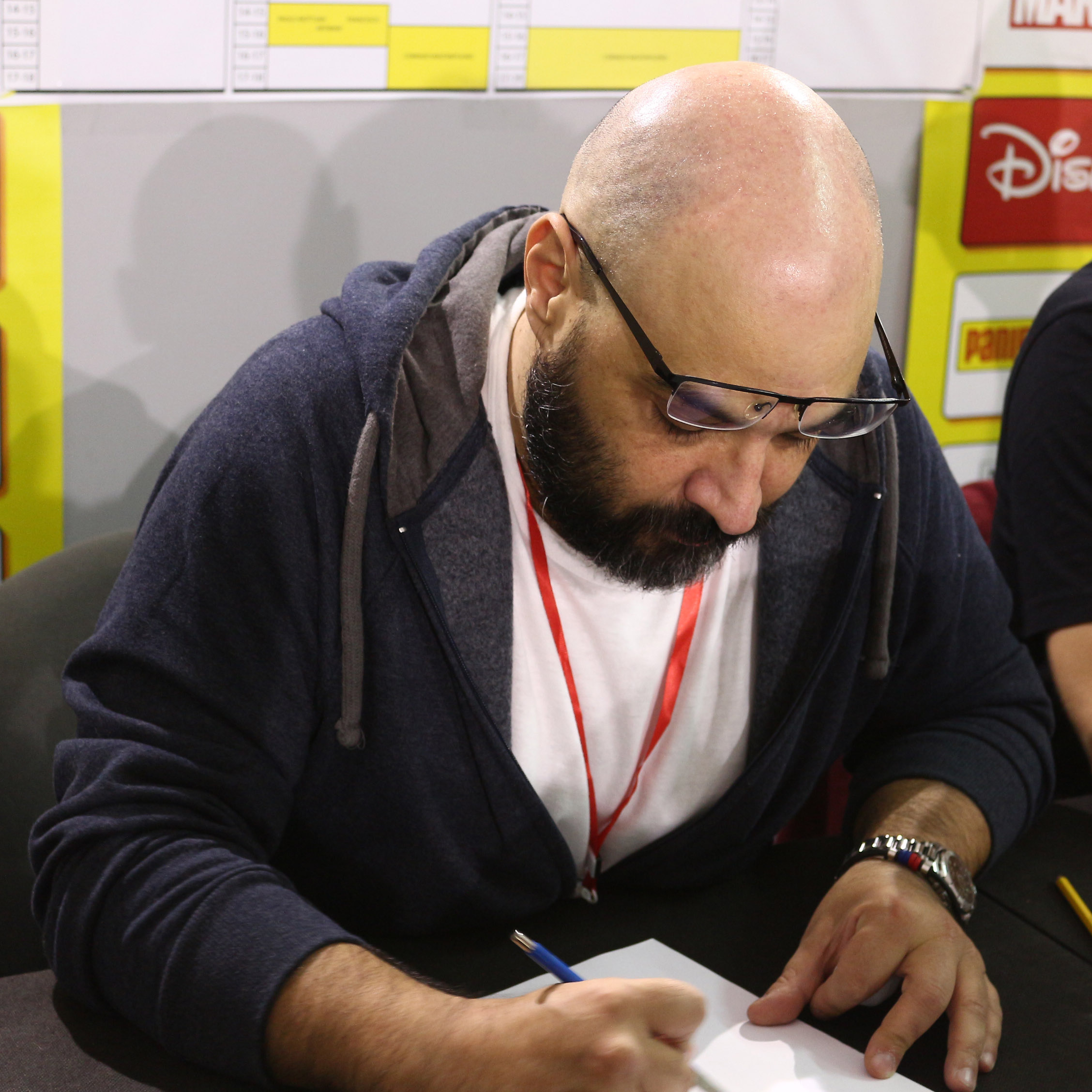 Andrea Freccero at Lucca Comics 2013